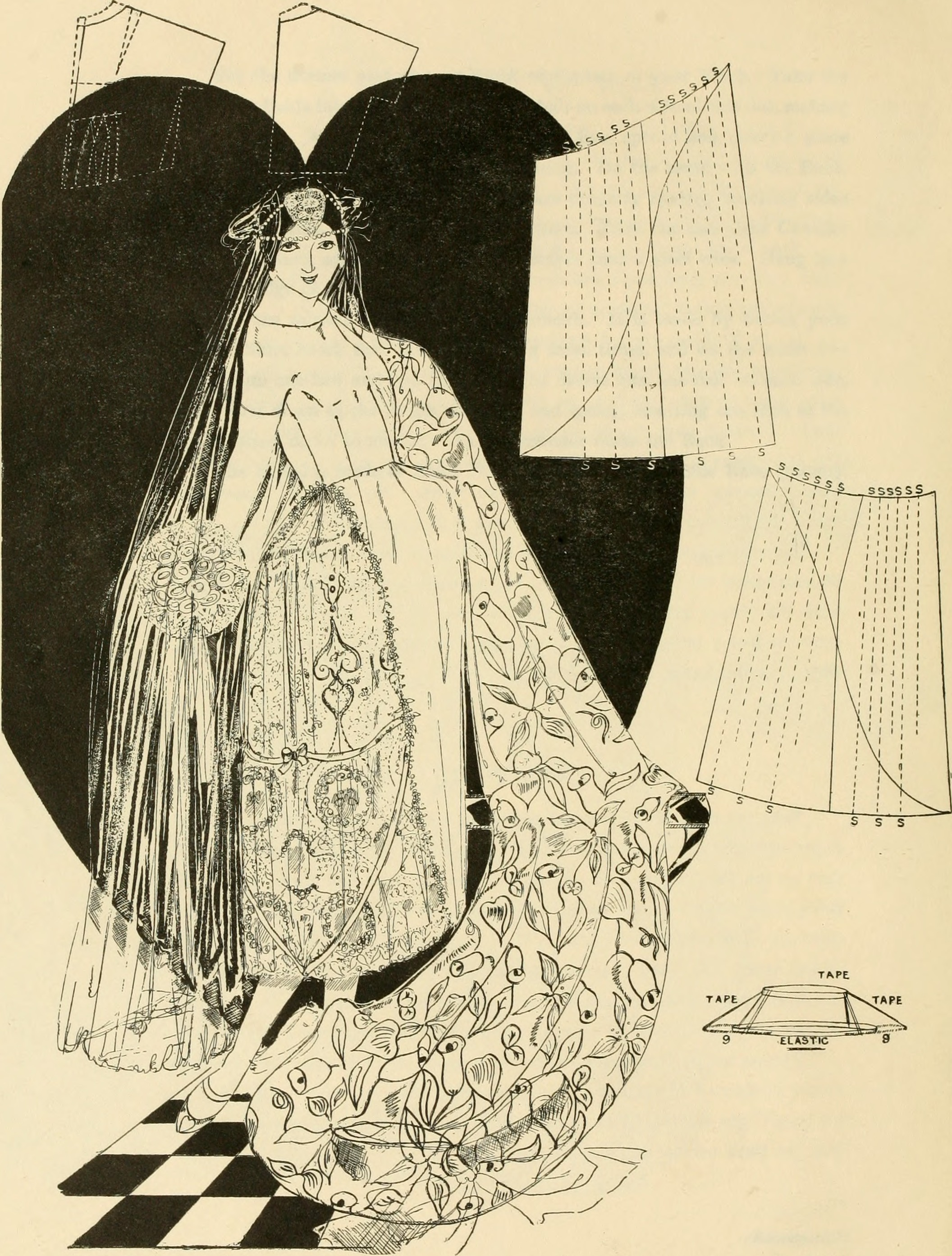 A 1922 robe de style wedding dress with hooped panniers and long train. To the lower right is a drawing of a pannier hoop to wear underneath.